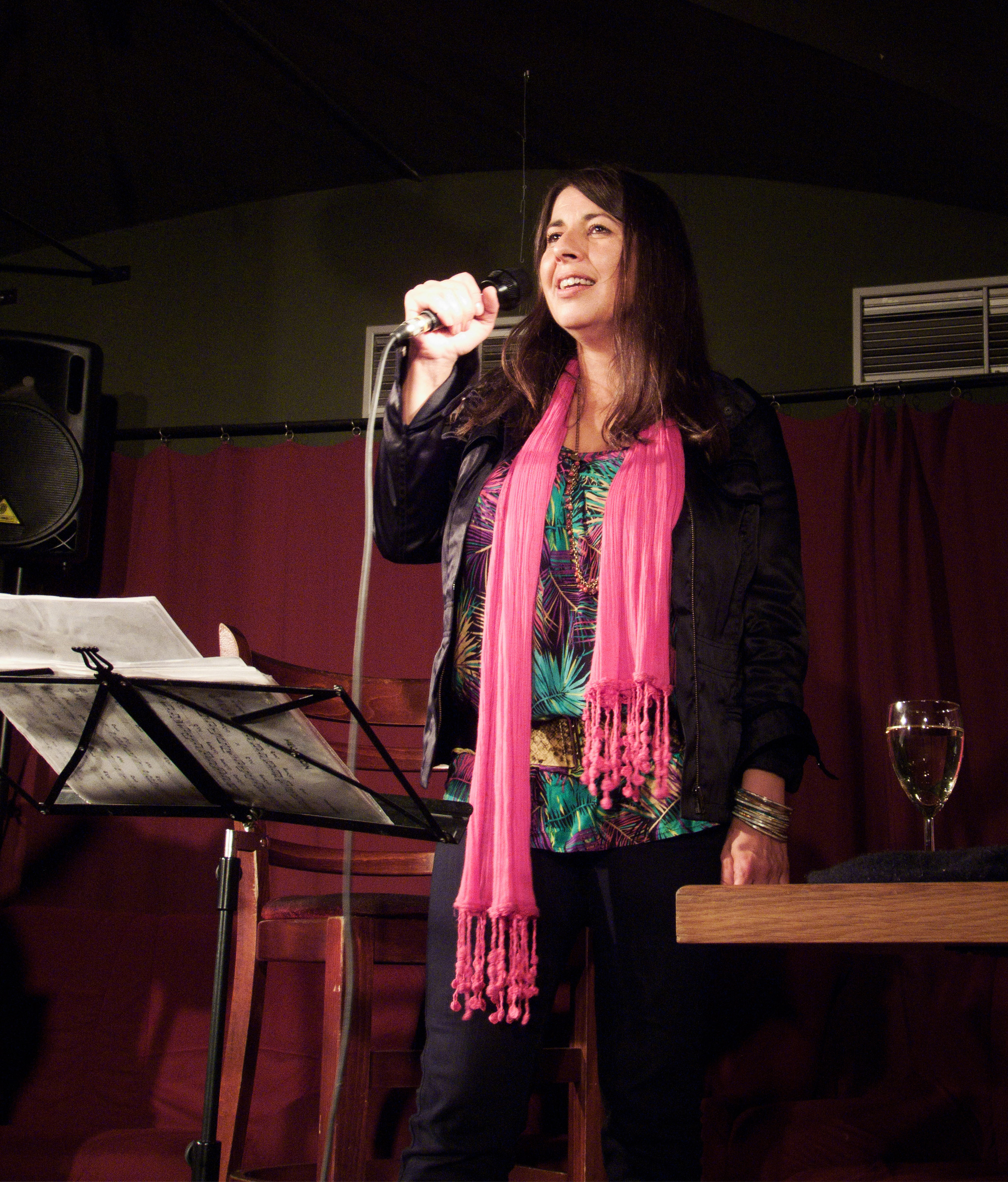 Yvonne Sanchez performing at Horká vana café, České Budějovice, South Bohemian Region, Czech Republic. Česky: Yvonne Sanchez při vystoupení v kavárně Horká vana v Českých Budějovicích.